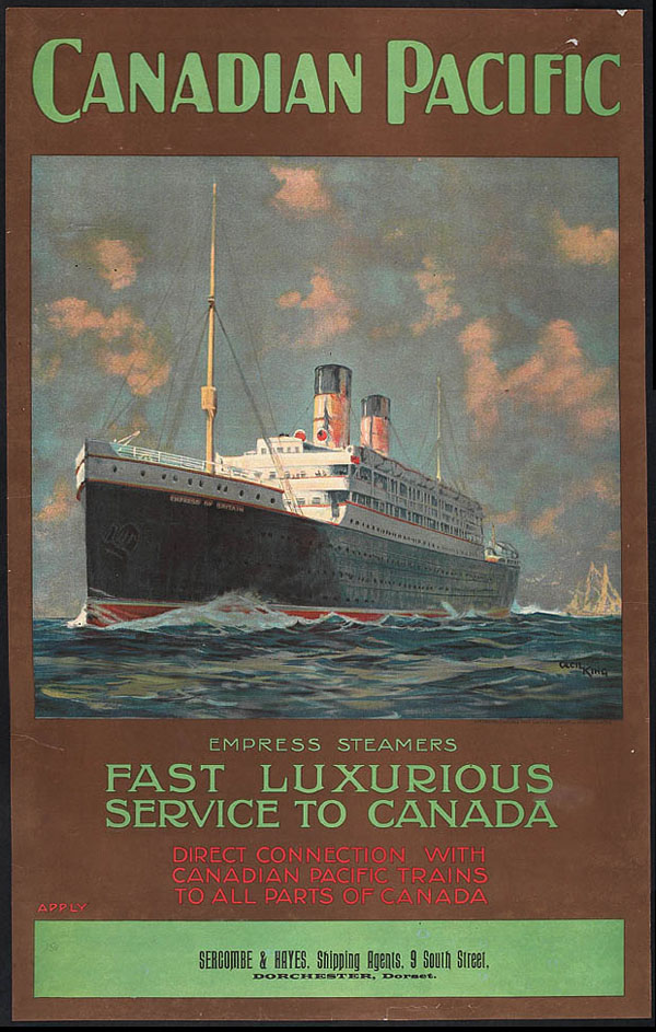 Canadian Pacific Railway Empress Steamer poster, published in 1920 in the United Kingdom. Publisher: Sir Joseph Causton & Sons Limited, London, England. Print / estampe : colour lithograph on wove paper. Support: 63.500 x 101.100 cm.